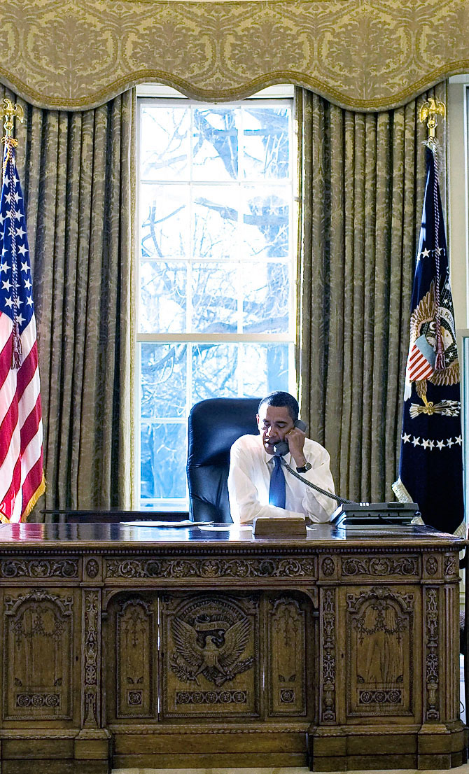 President Barack Obama at his desk in the Oval office of the White House, in Washington, Wednesday, Jan. 21, 2009. The photo was released by the White House. Wednesday was Obama's first full day as president. (Pete Souza/The White House via The New York Times)